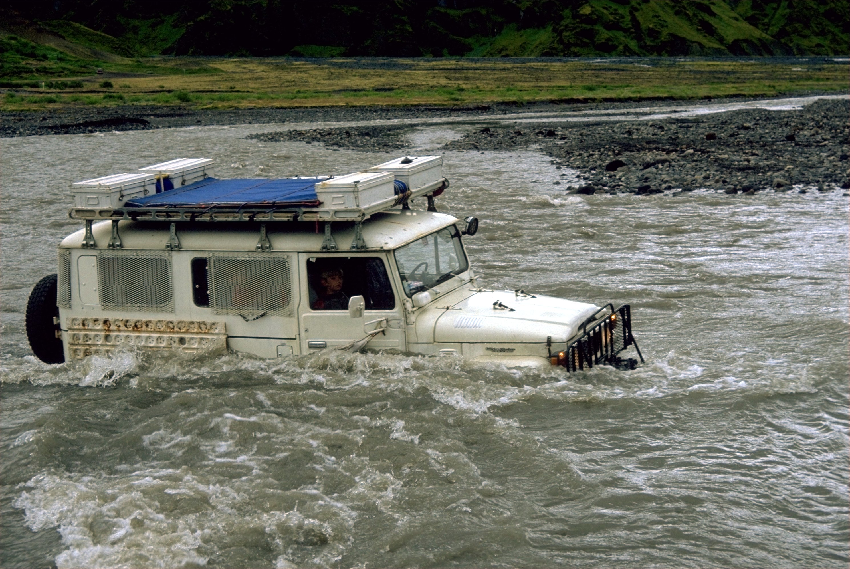 Land Cruiser fords in Þórsmörk, Iceland Photo was taken using the following technique: Film: Fuji Velvia Lens: 70-210 Filter: none Body: Minolta 7 Support: Manfrotto 190B Image with Information in English Bild mit Informationen auf Deutsch